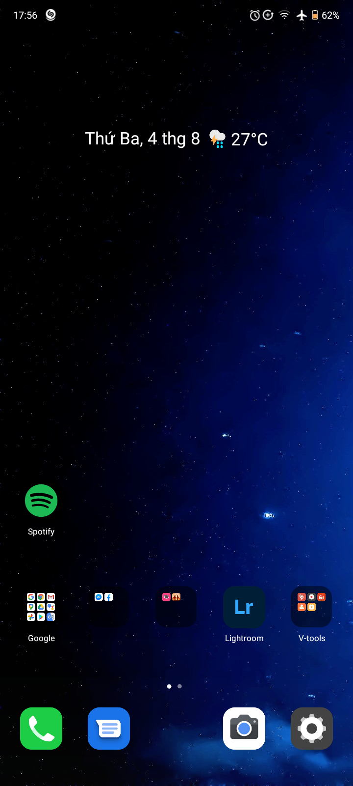 Vsmart Joy 3 on VOS 3.0 (Android 10)